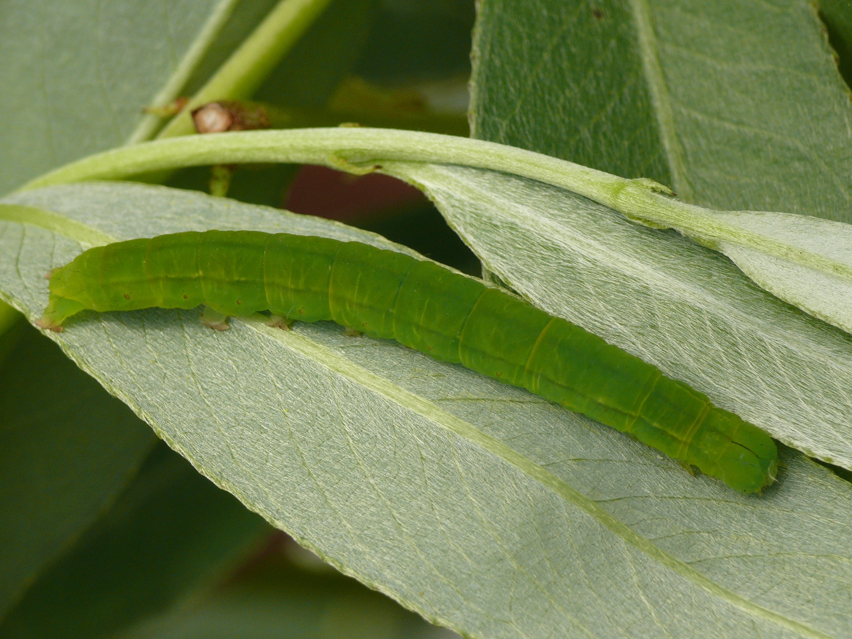 Caterpillar of The Herald on White Willow (Salix alba)